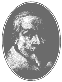 Willem Usselinx, 1567-1647, Dutch economist